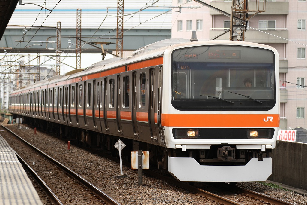 JR East 209-500 series 8-car EMU set M71 passing Nishi-Urawa Station on a Musashino service to Omiya